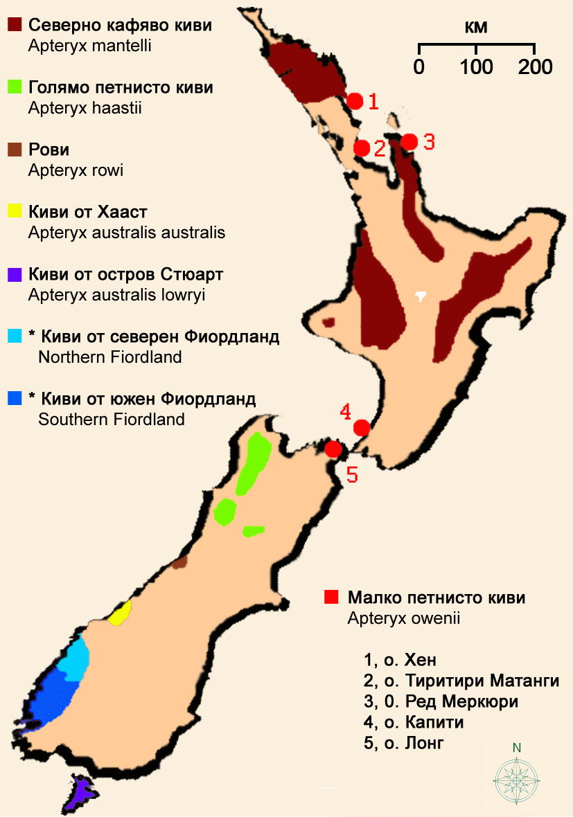 Map of kiwi areal /BG/